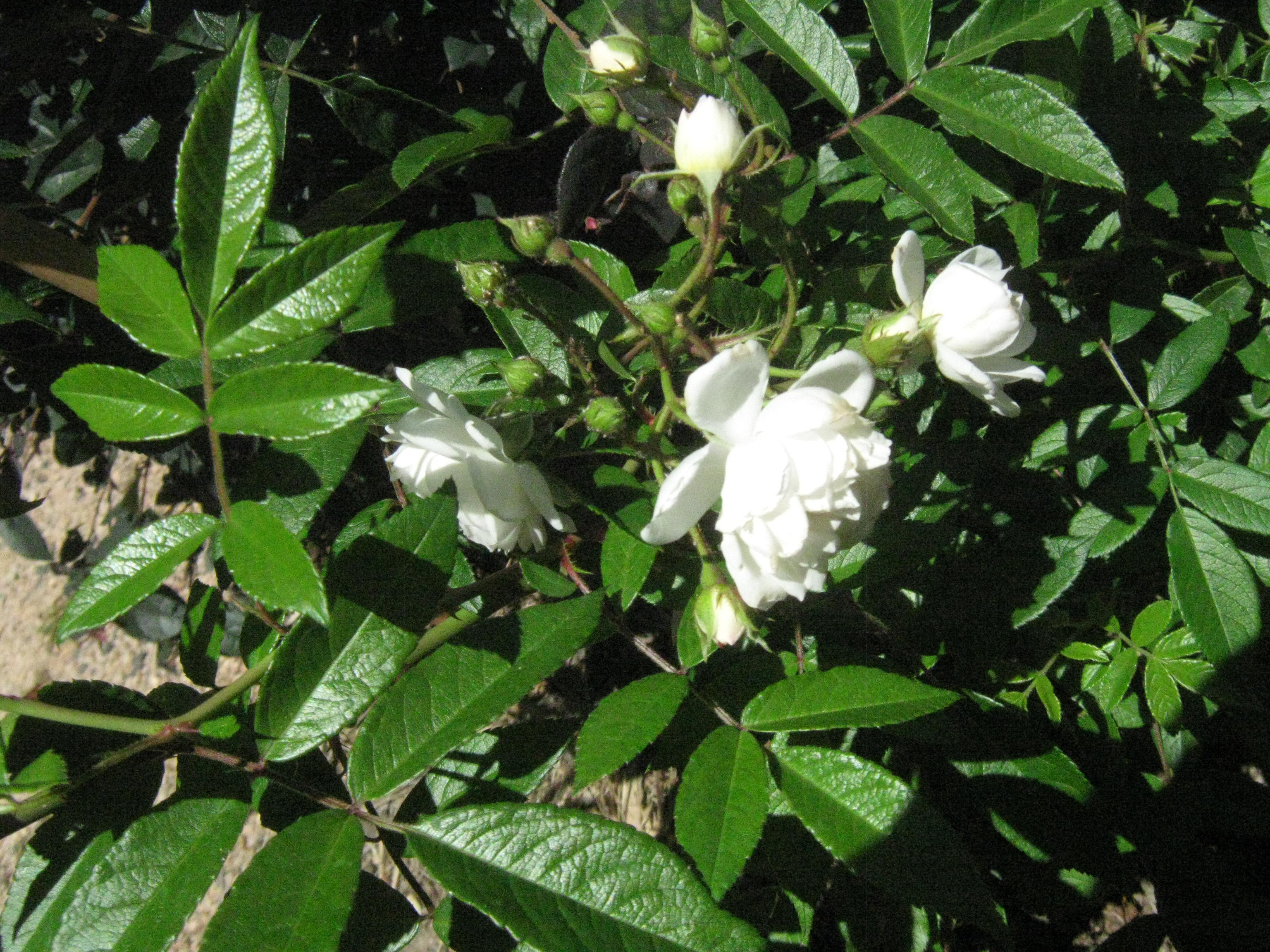 Riethmuller hybrid multiflora rose shrub 'Snow Spray' 1957; photographed Christmas 2011 in the Queensland garden of Dawn Eldridge née Riethmuller